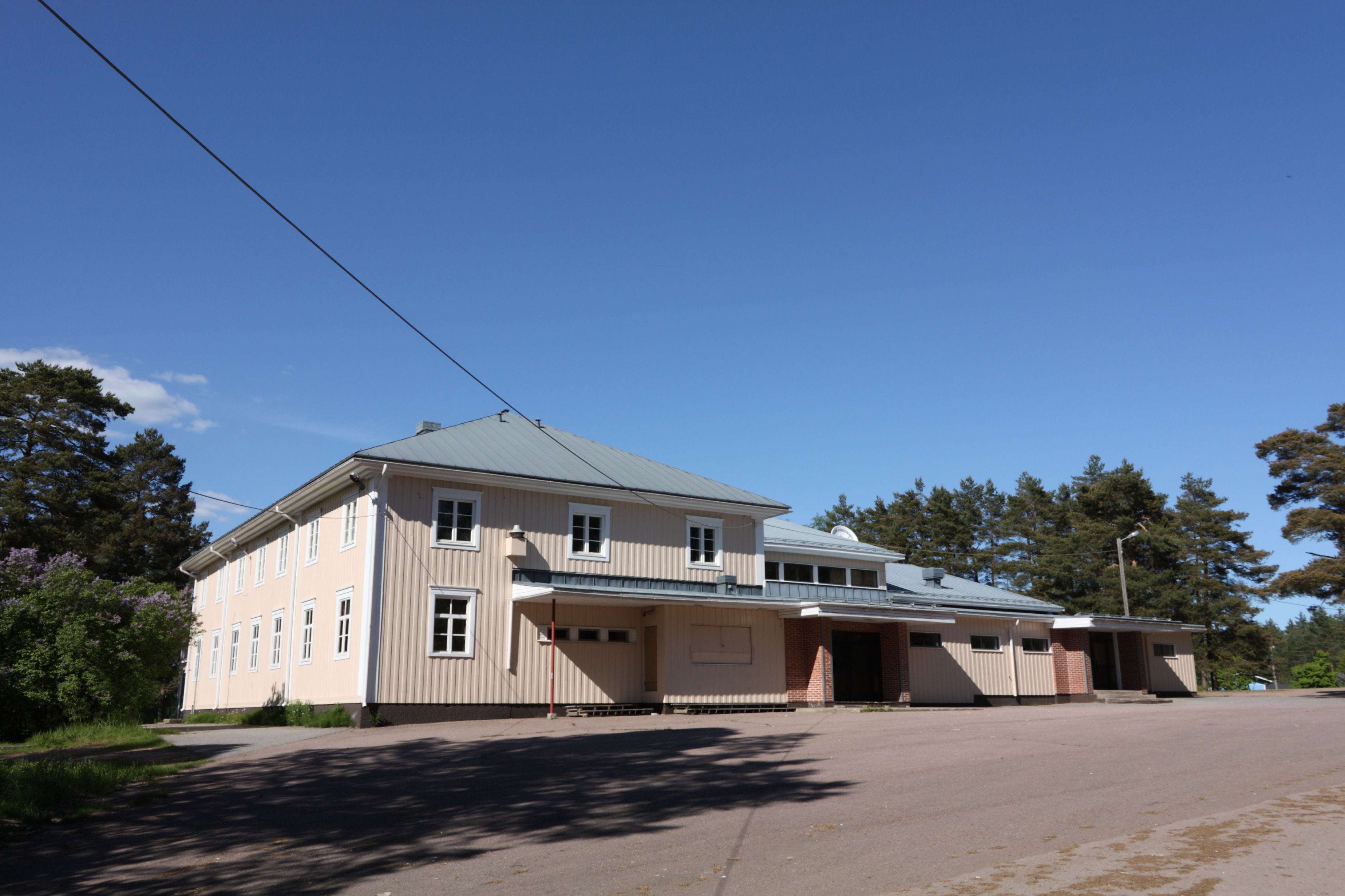 Lallintalo meeting and entertainment venue in Köyliö, Finland.